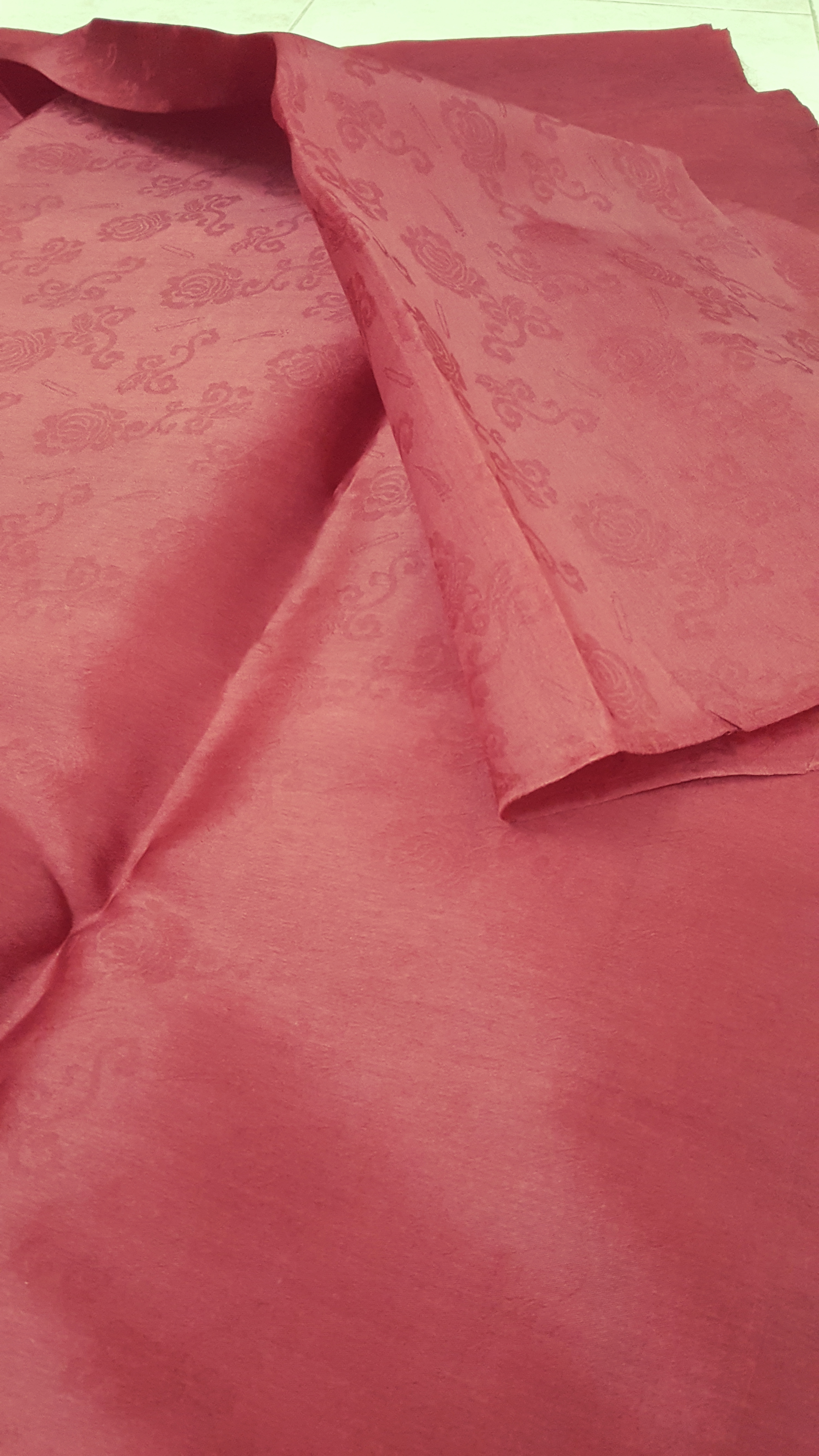 satin from Ma Chau village, Quảng Nam province